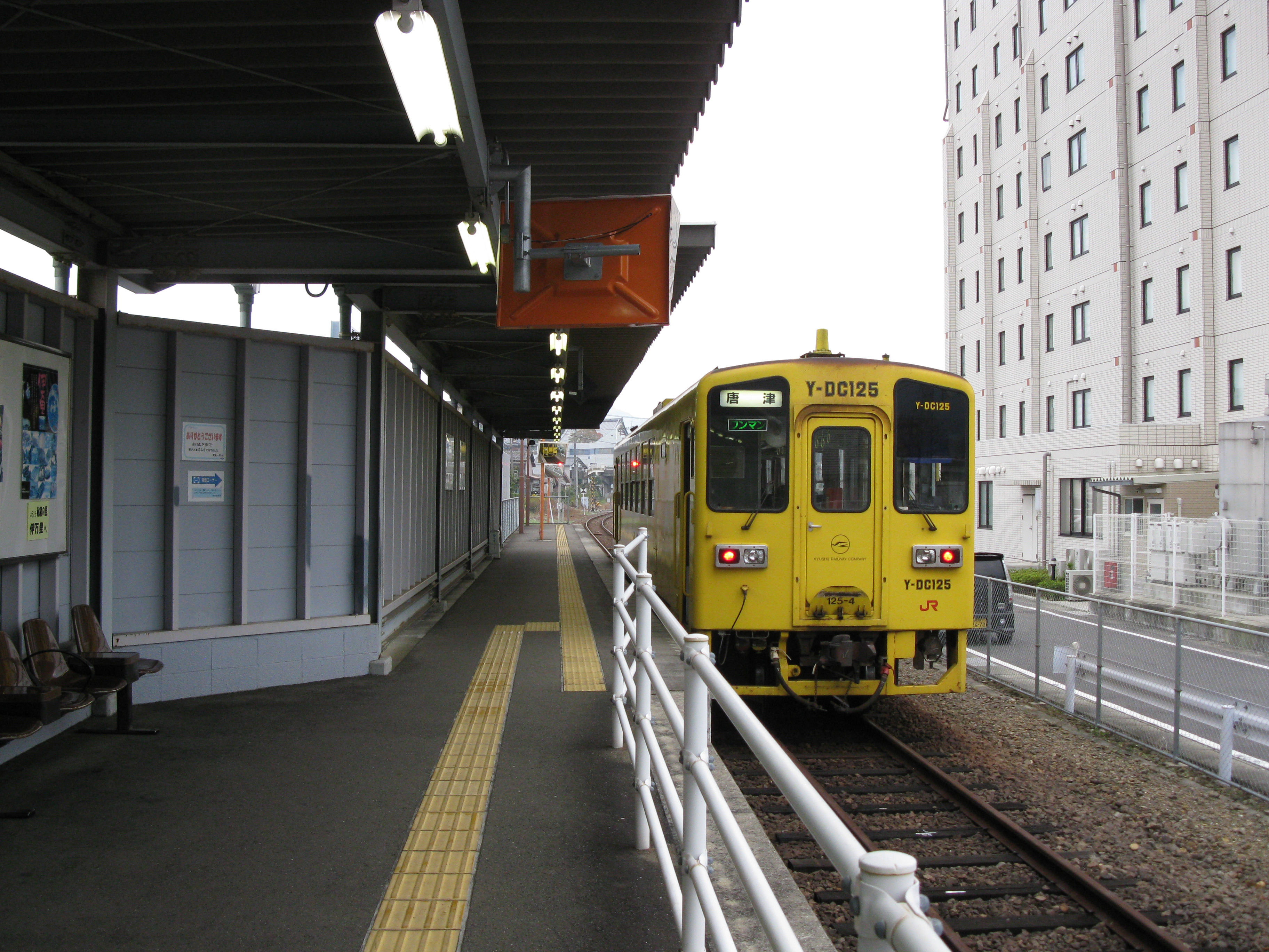 Imari Station platform (Kyushu Railway Chikuhi Line)